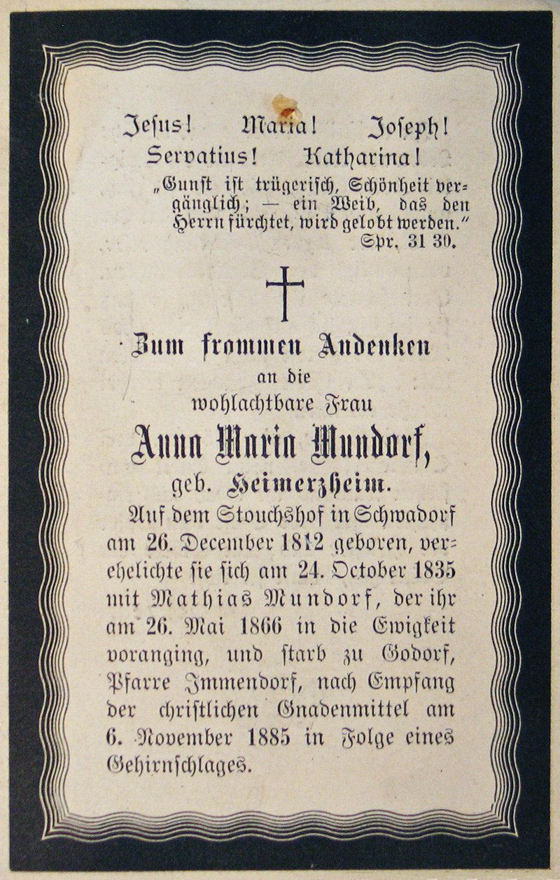 "Death-Note" (Totenzettel) reminds of Anna Maria Mundorf who died 1885